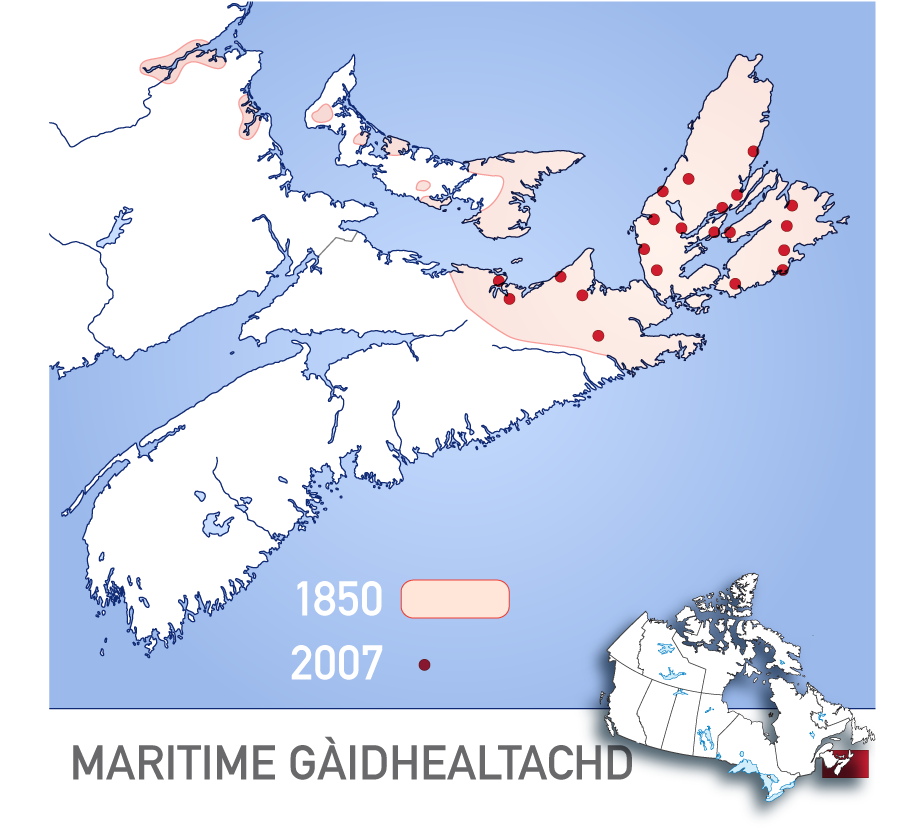 Map of areas in Atlantic Canada where Canadian Gaelic, in 1850 and 2007.